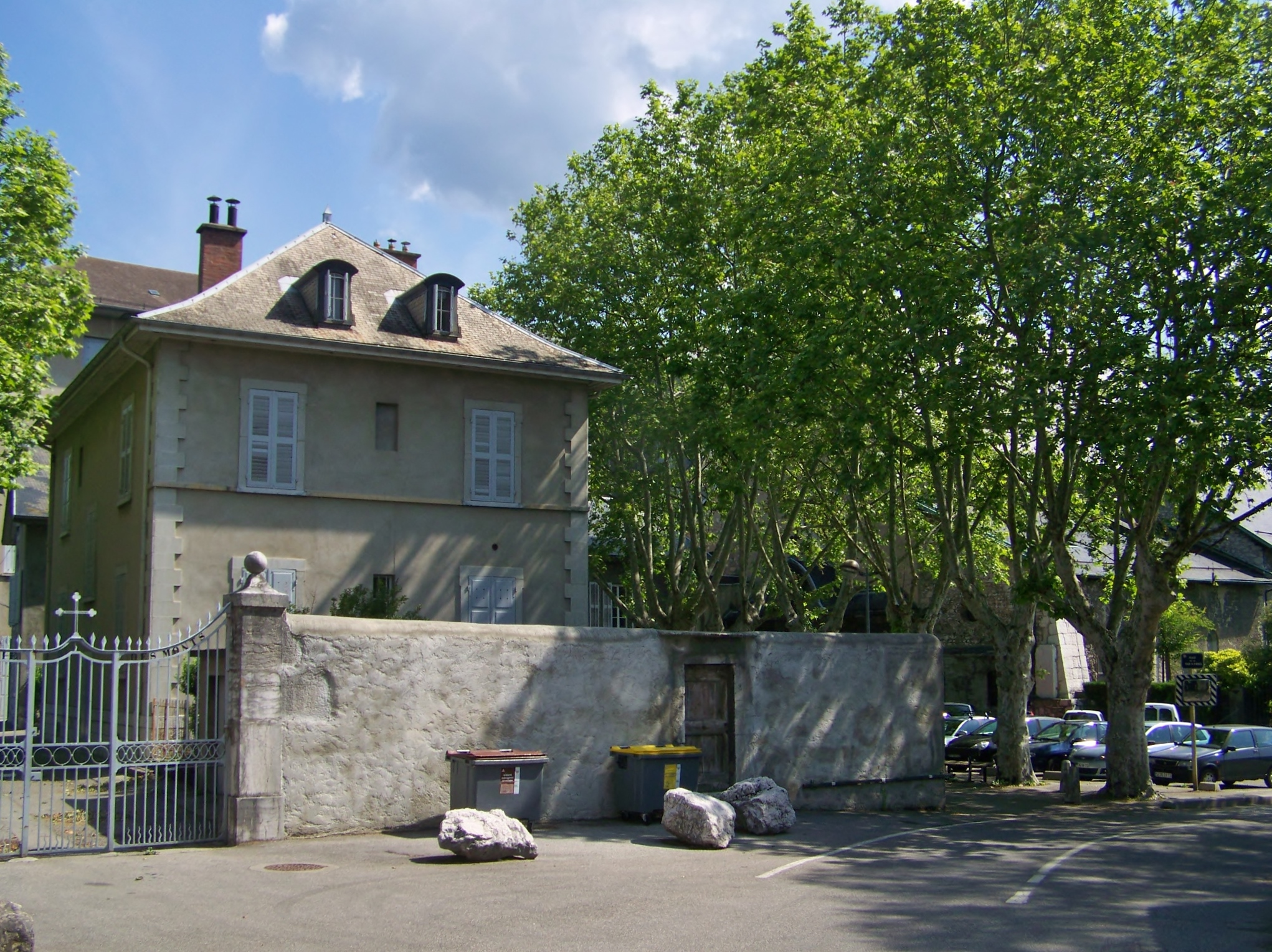 Sight of the couvent de la Visitation convent entrance, and the église Saint-Pierre de Lémenc church behind the trees on the right, on the heights of Chambéry, in Savoie, France.